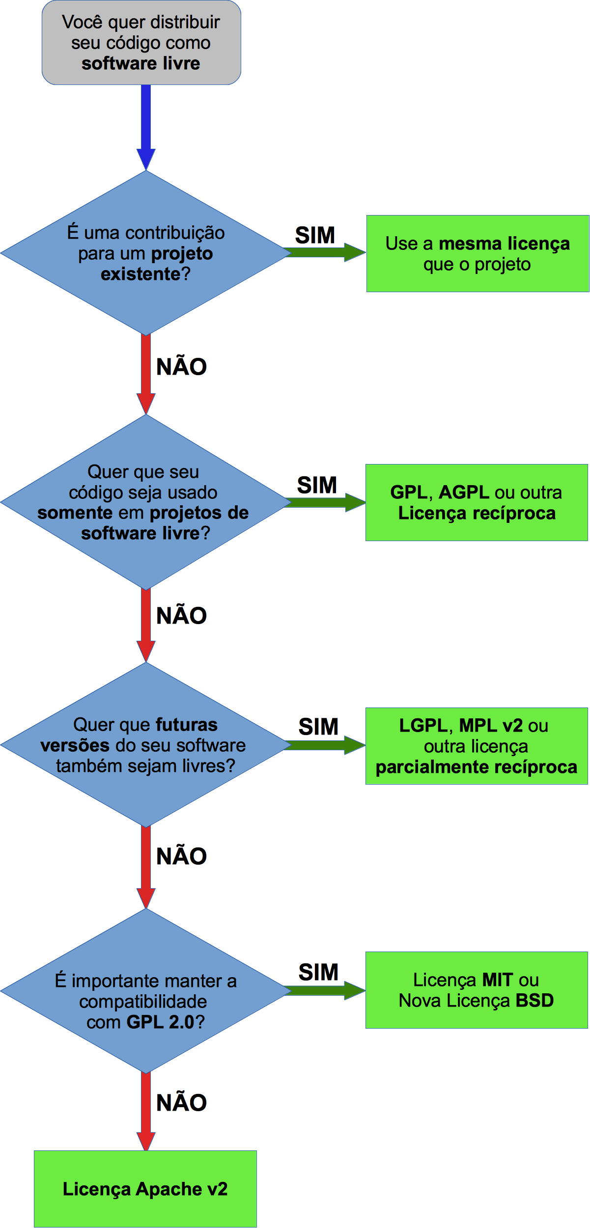 Picture describing a mecanism to select an open source licence. Based on SABINO, V. C., Um estudo sistemático de licenças de software livre, 2011. 116f. Dissertação (Mestrado em Ciência da Computação) – Instituto de Matemática e Estatística, Universidade de São Paulo, São Paulo, 2011.